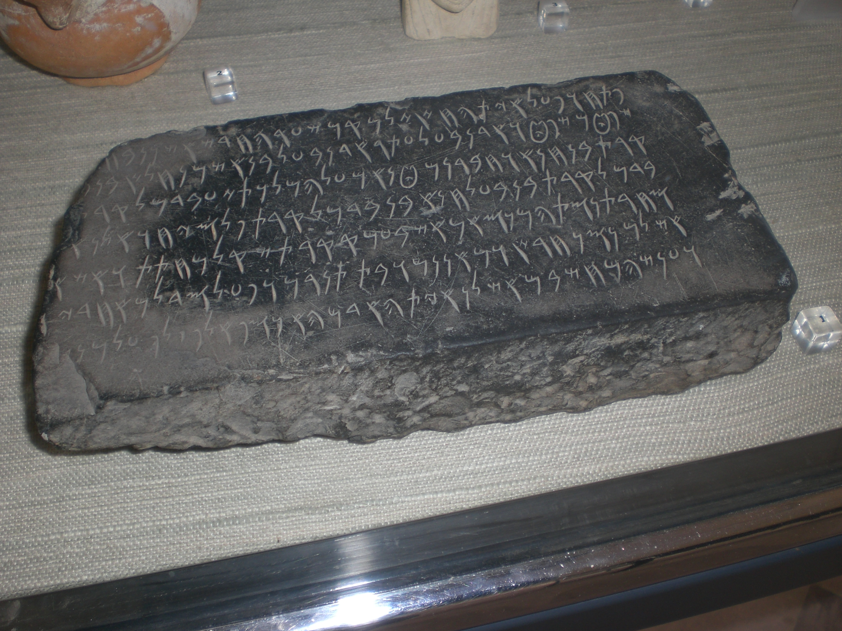 Punic writing from Carthage museum